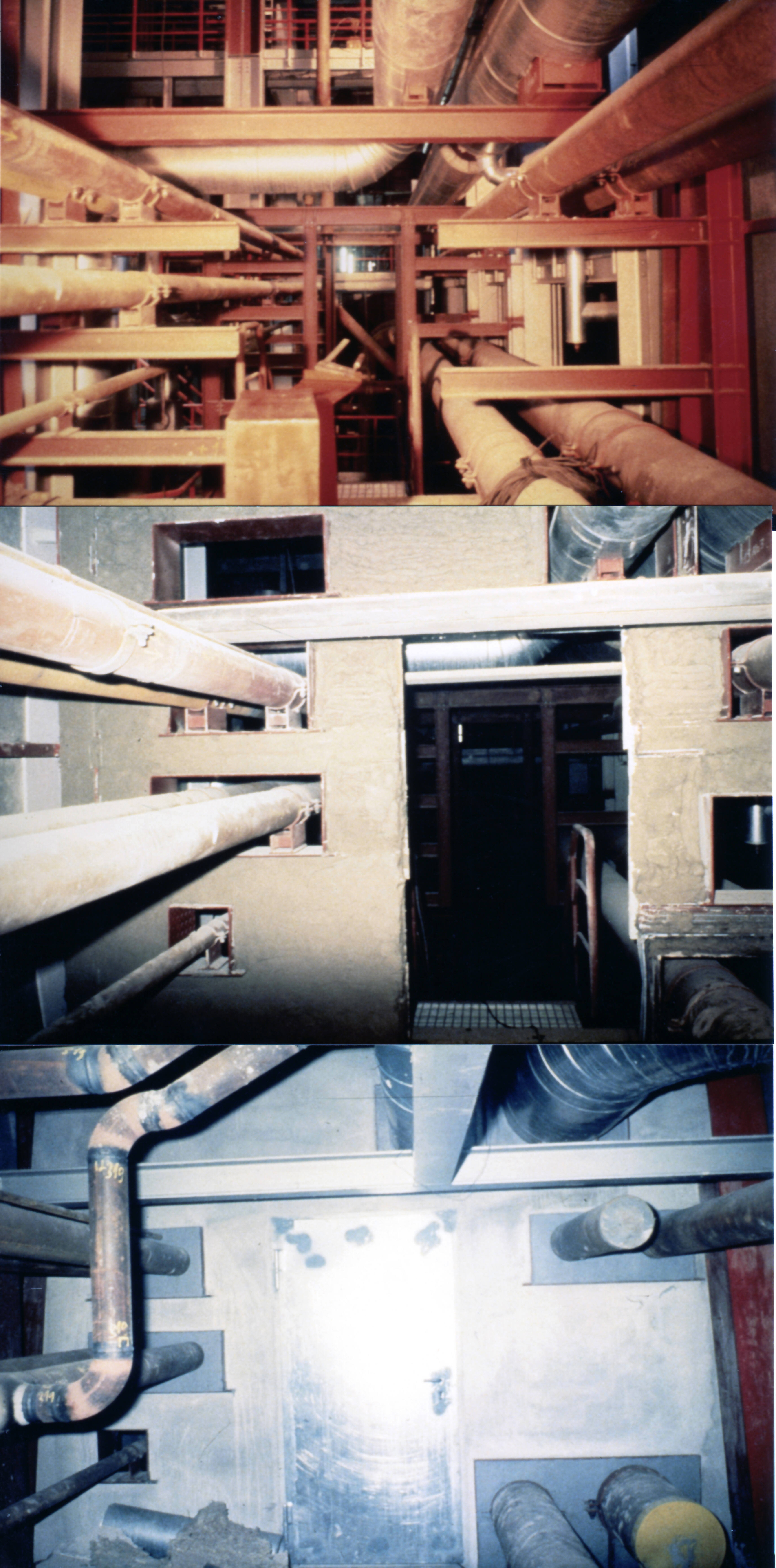 Fire-resistance rated cross barrier in a pipe tunnel of a German power plant. Nothing else would work here, not brick, drywall, or cast concrete. The firestop mortar was simply pumped in and smoothed up. Holes were spared out for the actual piping and ductwork penetrations. These smaller holes are subject to motion and were thus filled with rockwool packing and then sealed with a silicone firestop caulking. Advanced firestop mortars afford superior dimensional stability (adhesion/cohesion) during placement, while in the plastic state.